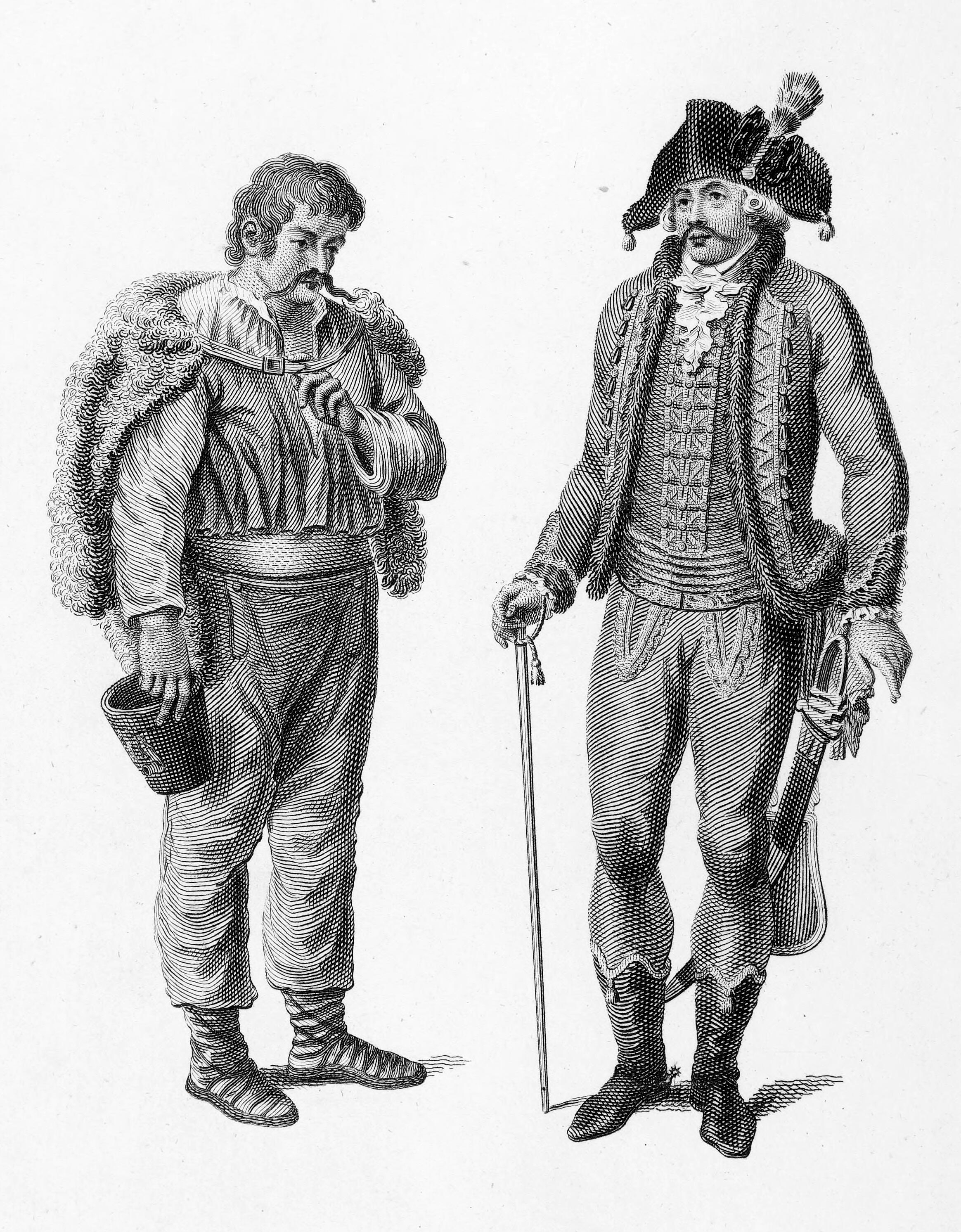 Villein and noble from Hungary, end of 18th century